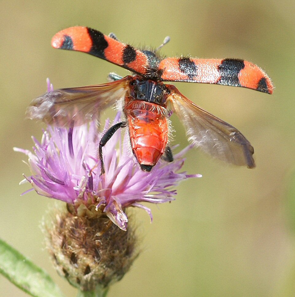 Soldier Beetle, Beehive Beetle